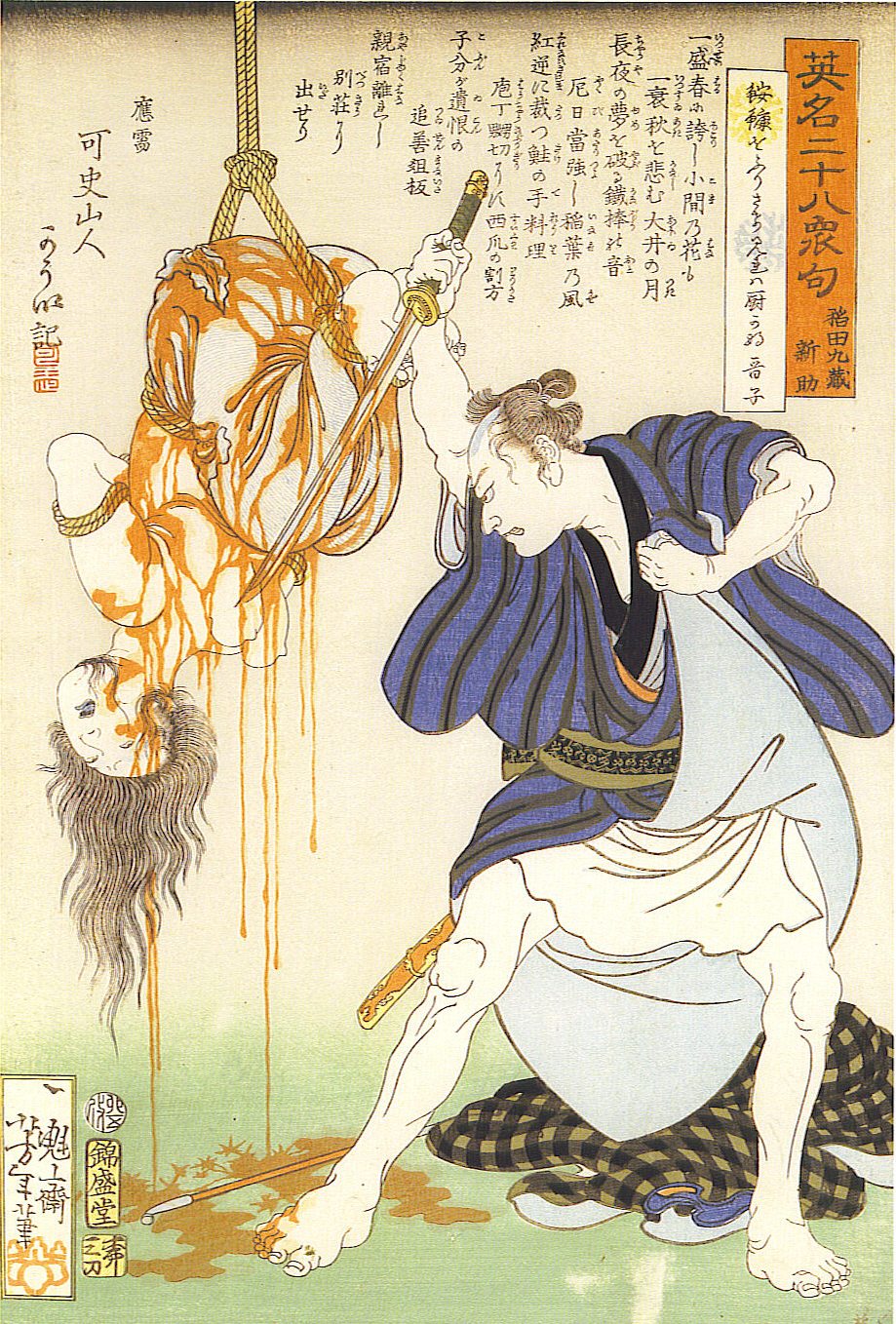 Yoshitoshi Series: Eimei nijûhasshûku (Twenty-eight famous murders with verse)